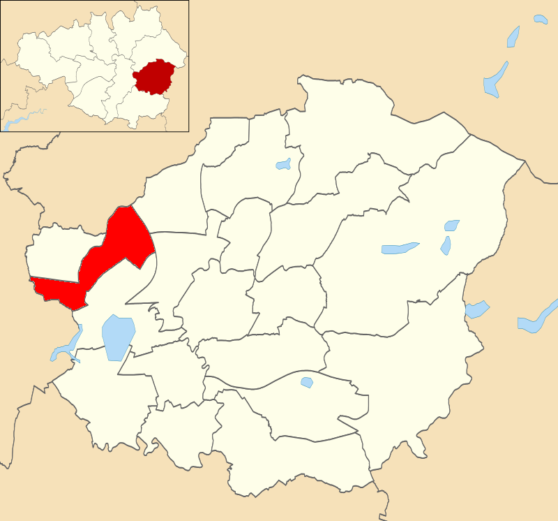 Map showing location of Droylsden East Ward within Tameside Metropolitan Borough Council.